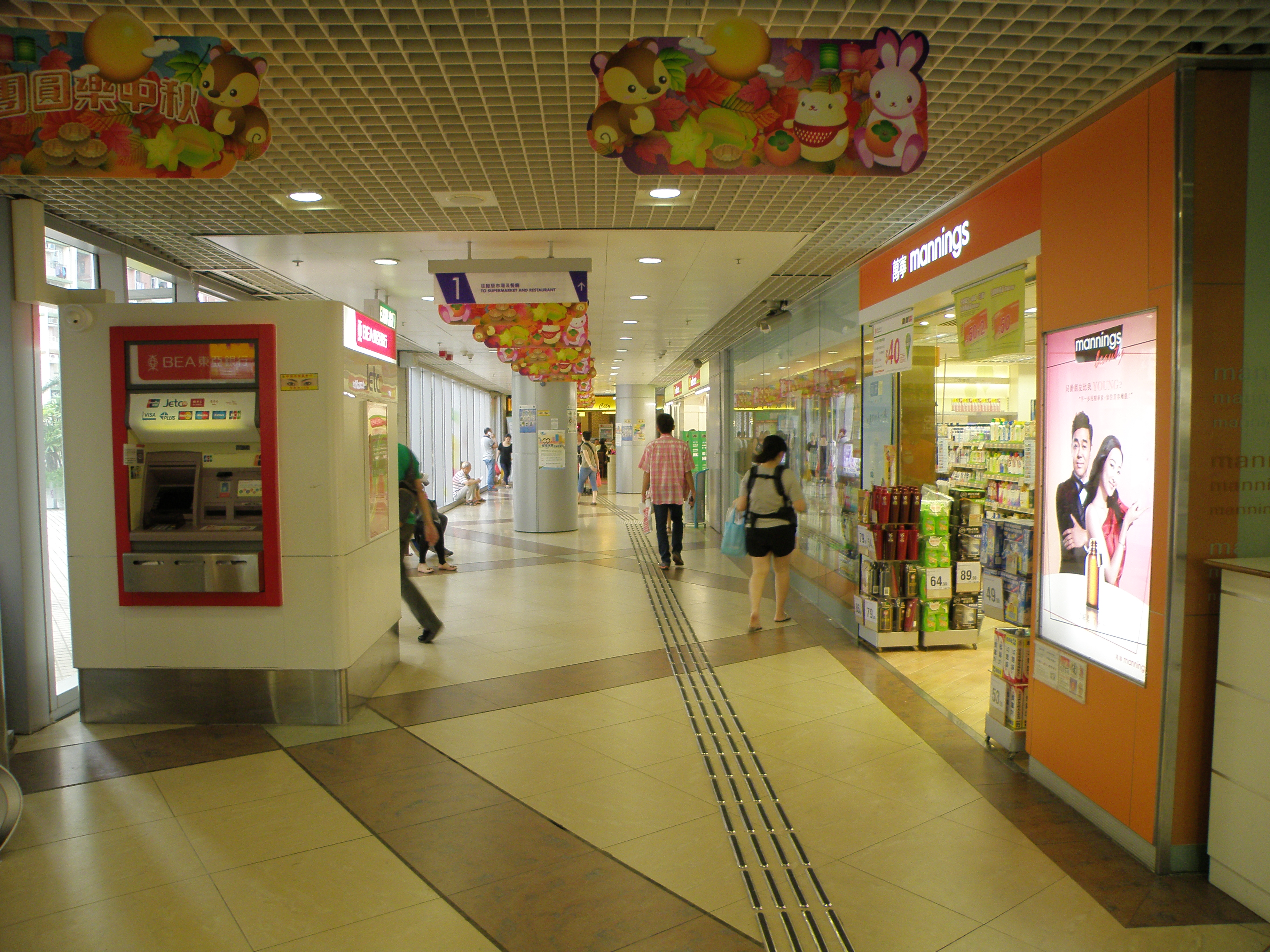 Mei Tin Shopping Centre in Tai Wai, Hong Kong.